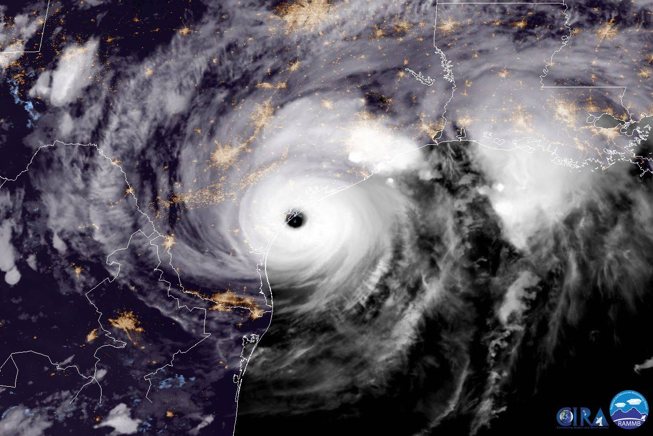 GOES-16 captured this geocolor imagery of Hurricane Harvey on the verge of making landfall on the Texas coast on August 25, 2017. The National Hurricane Center reported at 10:00 p.m. CDT that Harvey made landfall on the Texas coast. More info at goo.gl/b5gEAF Created by our partners at the Cooperative Institute for Research in the Atmosphere, the experimental geocolor enhancement displays geostationary satellite data in different ways depending on whether it is day or night. In nighttime imagery (shown here), liquid water clouds appear in shades of blue, ice clouds are grayish-white, water looks black, and land appears gray. The city lights are a static background created with VIIRS Day/Night Band imagery from the Suomi NPP satellite. Credit: CIRA Please note: GOES-16 data are currently experimental and under-going testing and hence should not be used operationally.